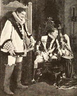 Still from the French episode of the American film Backbone (1923) with Alfred Lunt and Edith Roberts, on page 184 of the December 23, 1922 Exhibitor's Trade Review".